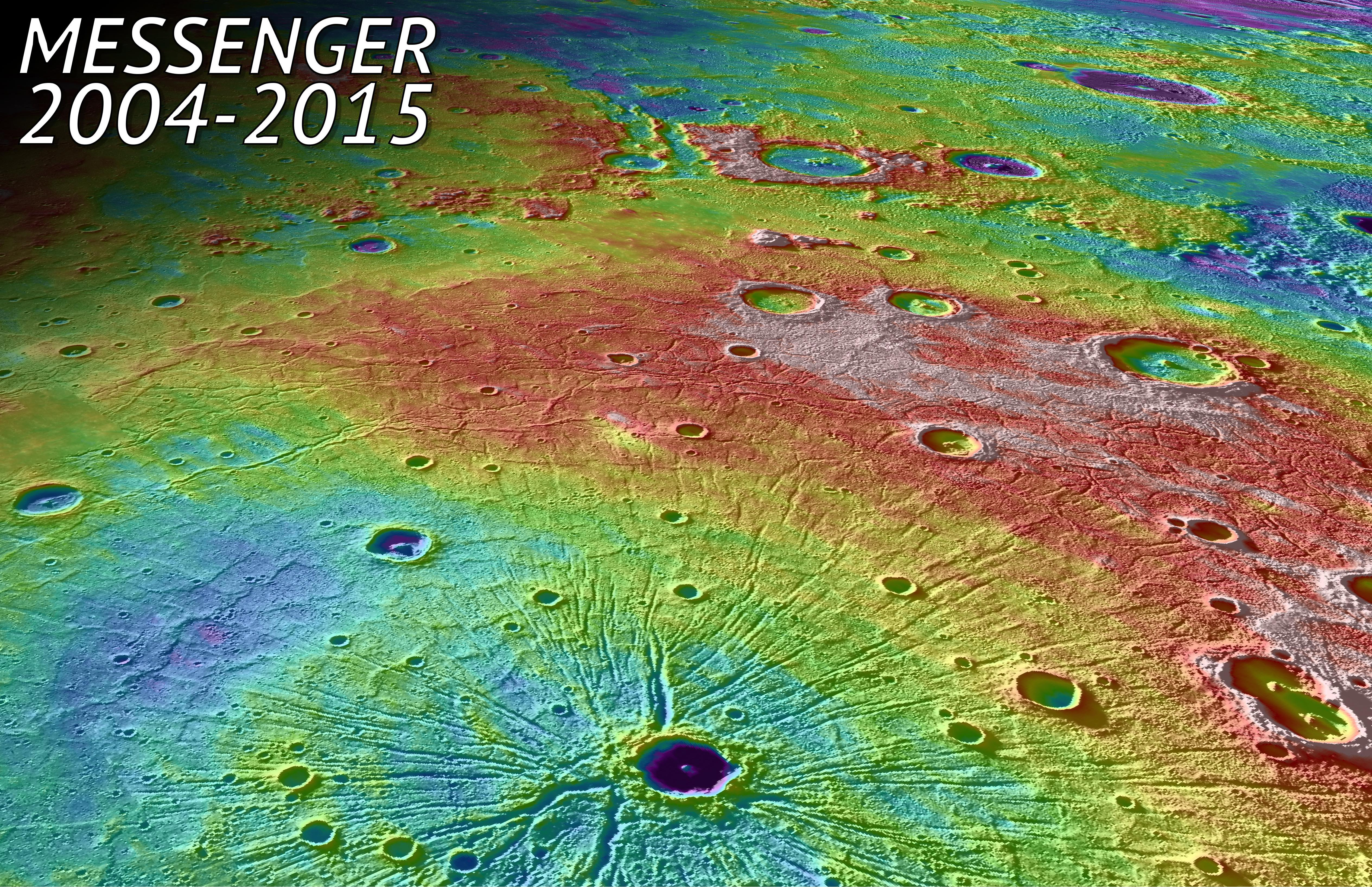 PIA19450: In Tribute In this perspective view, we look northwest over the Caloris Basin, a depression about 1500 km in diameter formed several billion years ago by the impact of a large projectile into the surface of Mercury. The mountain range at the edge of the basin can be seen as an arc in the background. In the foreground, we see a set of tectonic troughs, known as Pantheon Fossae, radiating from the center of the basin outward toward the edge of the basin interior. A 41-km-diameter impact crater, Apollodorus, is superposed just slightly off from the center of Pantheon Fossae. White and red are high topography, and greens and blues are low topography, with a total height differences of roughly 4 km. The MESSENGER spacecraft was launched in 2004 and ended it's orbital operations yesterday, April 30, 2015, by impacting Mercury's surface. Background image texture is provided by the Mercury Dual Imaging System (MDIS) instrument while color corresponds to surface elevation data obtained from the Mercury Laser Altimeter (MLA) experiment, with both draped over a digital elevation model derived from MLA altimetric data. Instrument: Mercury Dual Imaging System (MDIS) and Mercury Laser Altimeter (MLA) Approximate Center Latitude: 33.7° N Approximate Center Longitude: 158.7° E Scale: Apollodorus crater is approximately 41 km (25 miles) in diameter As the first spacecraft ever to orbit Mercury, MESSENGER revolutionized our understanding of the Solar System's innermost planet, as well as accomplished technological firsts that made the mission possible. Check out these movies of the Top 10 Science Results and the Top 10 Technology Innovations from the mission, as well as this image highlights collection from the mission.